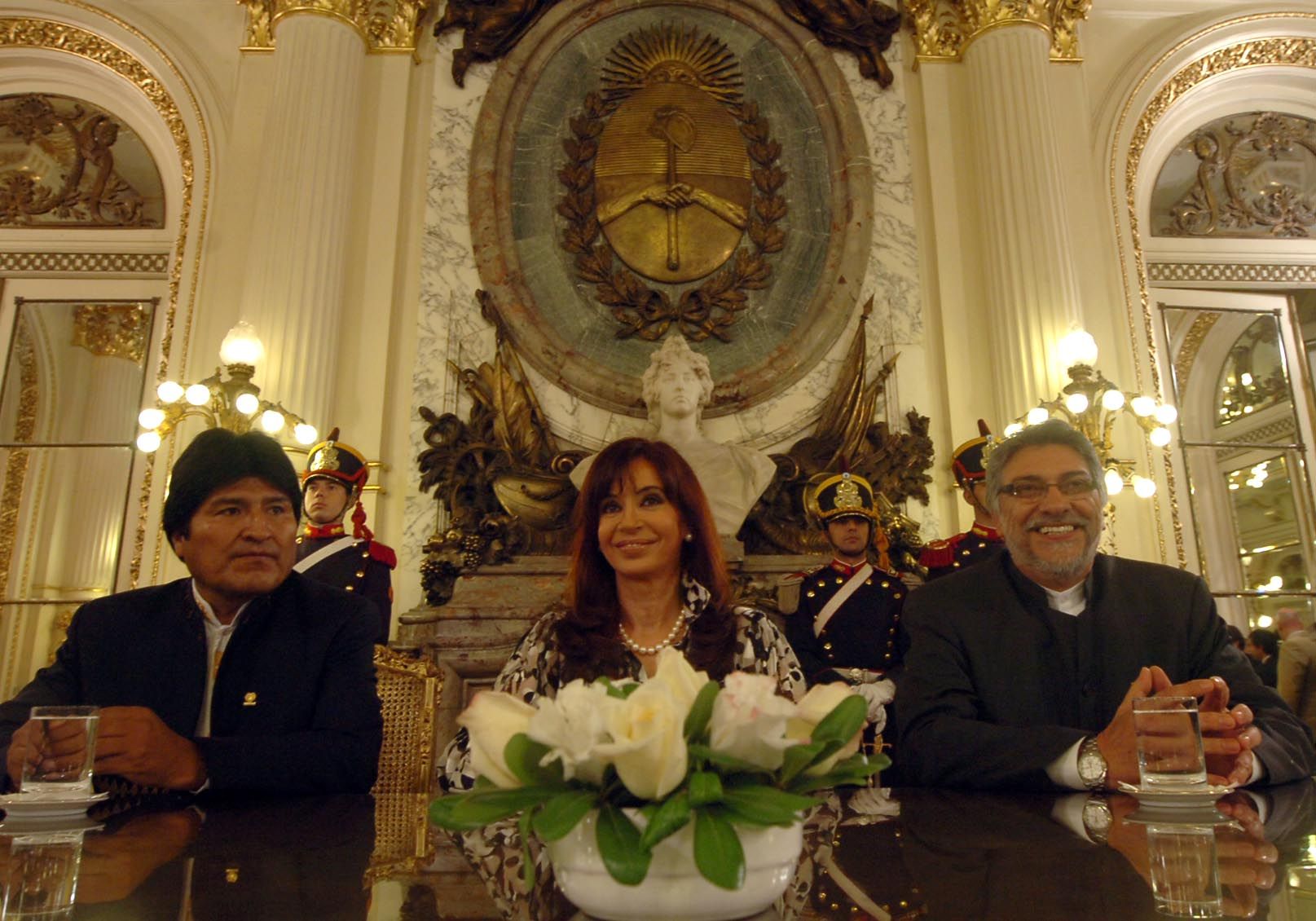 The presidents of Bolivia Evo Morales, Cristina Fernandez of Argentina and Fernando Lugo of Paraguay in the White Room of the Pink House. (Buenos Aires).